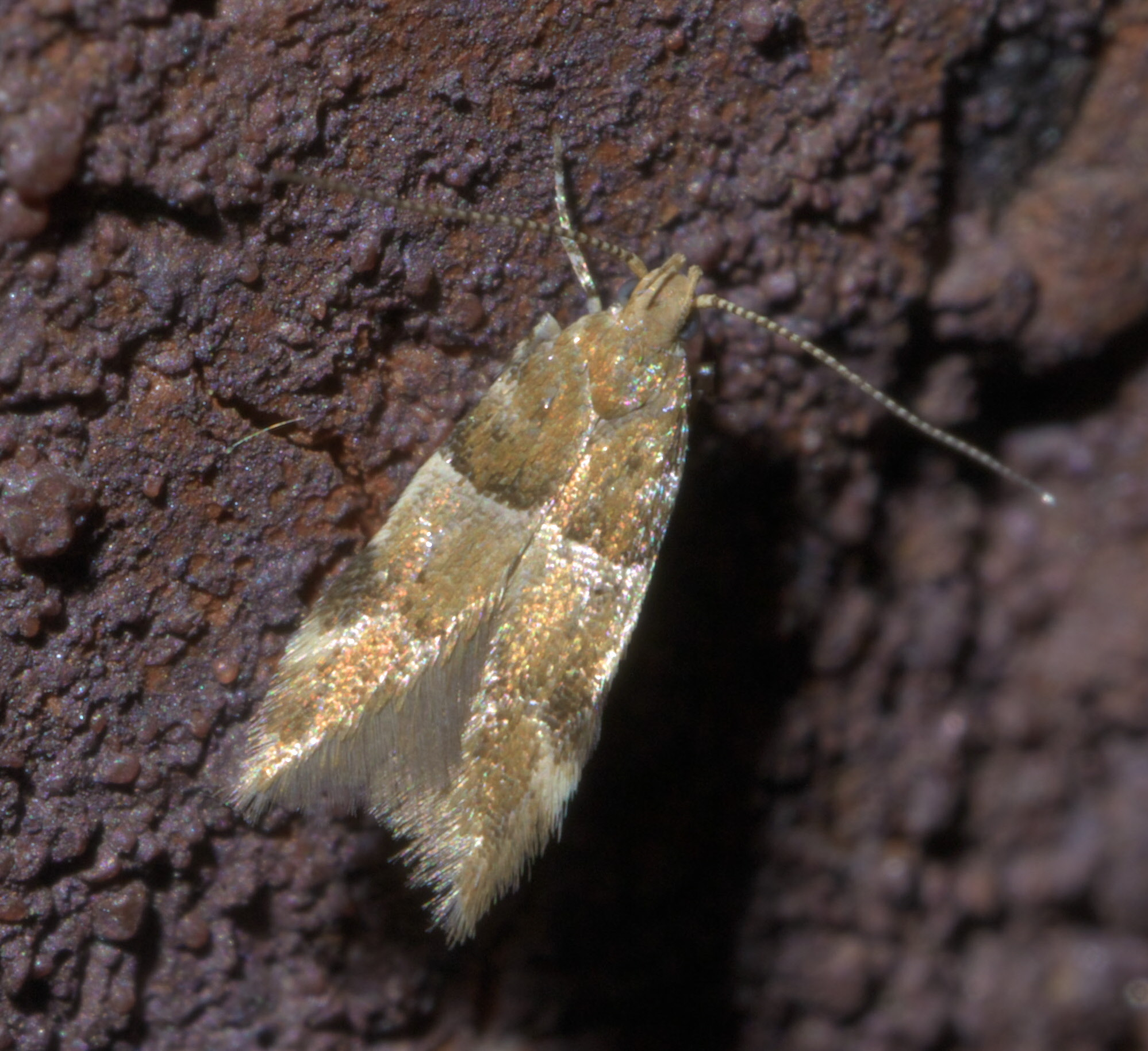 Theisoa constrictella, Hodges #1722, Size: 4.4 mm, ID Confidence: 88